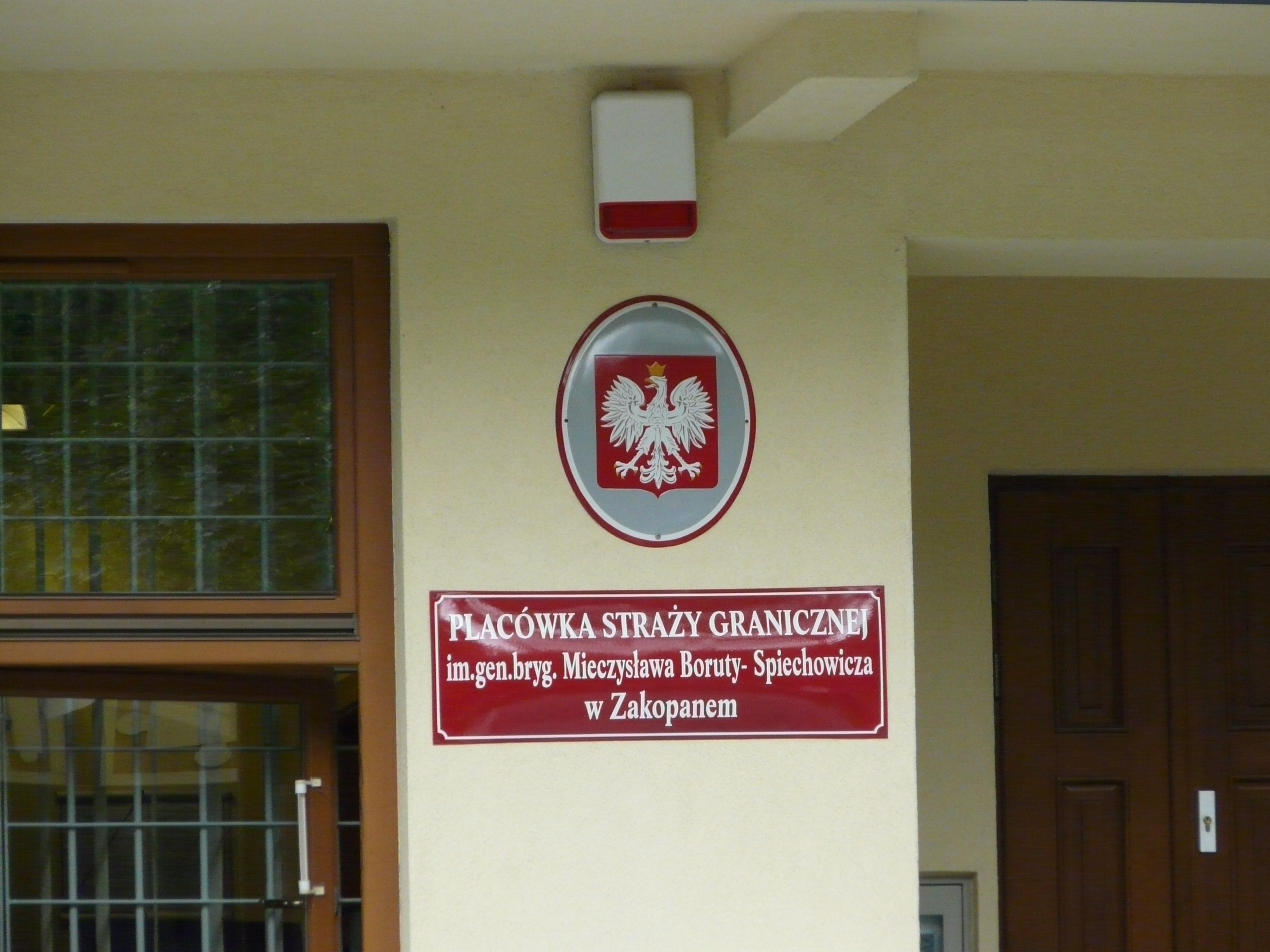 Polish border guards in Zakopane.